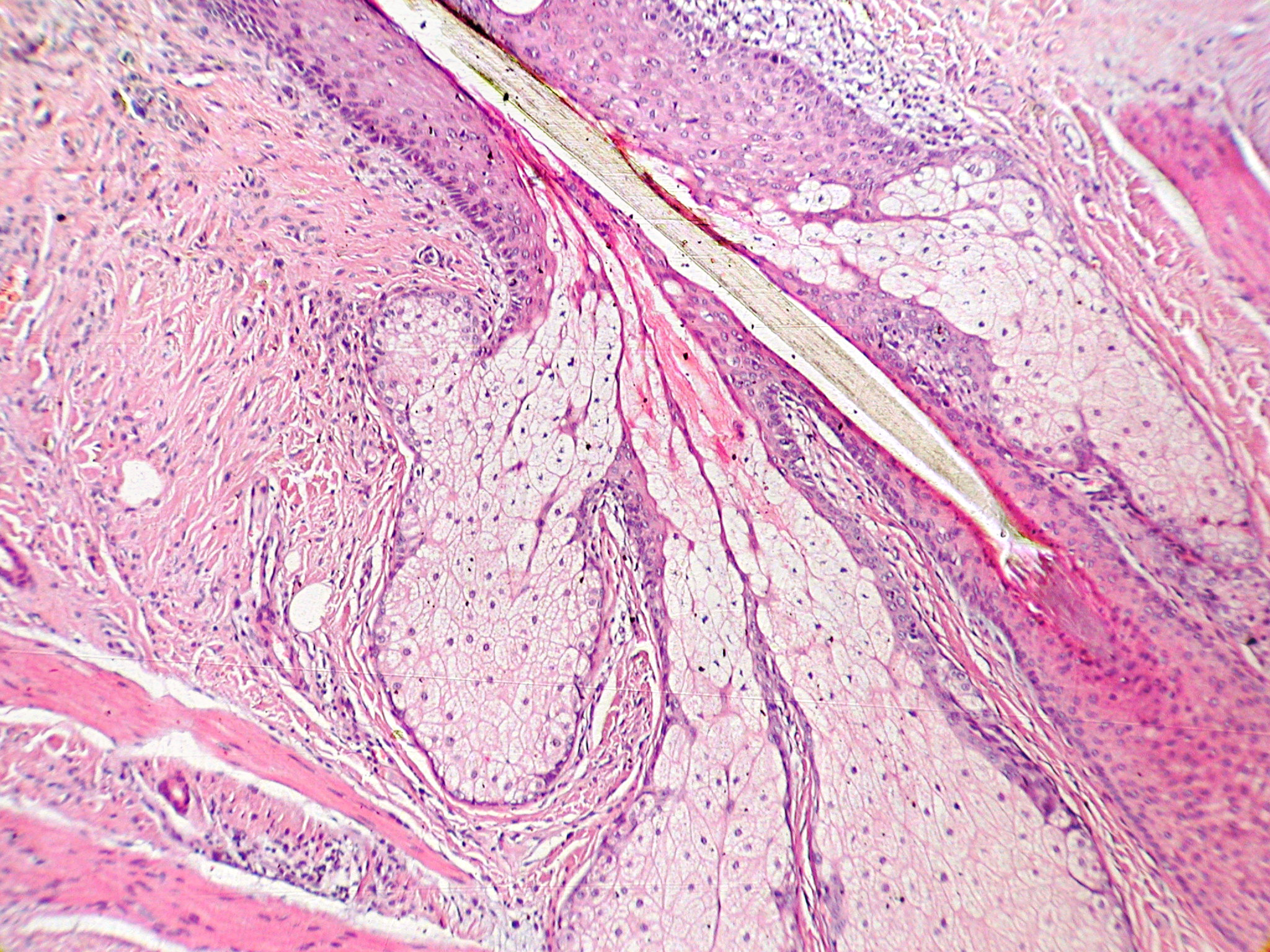 This is a hematoxylin and eosin stained slide at 10x of the insertion of sebaceous glands into hair shaft in a full, normal pilosebaceous unit, sectioned from tissue also found to have a benign intradermal nevus.